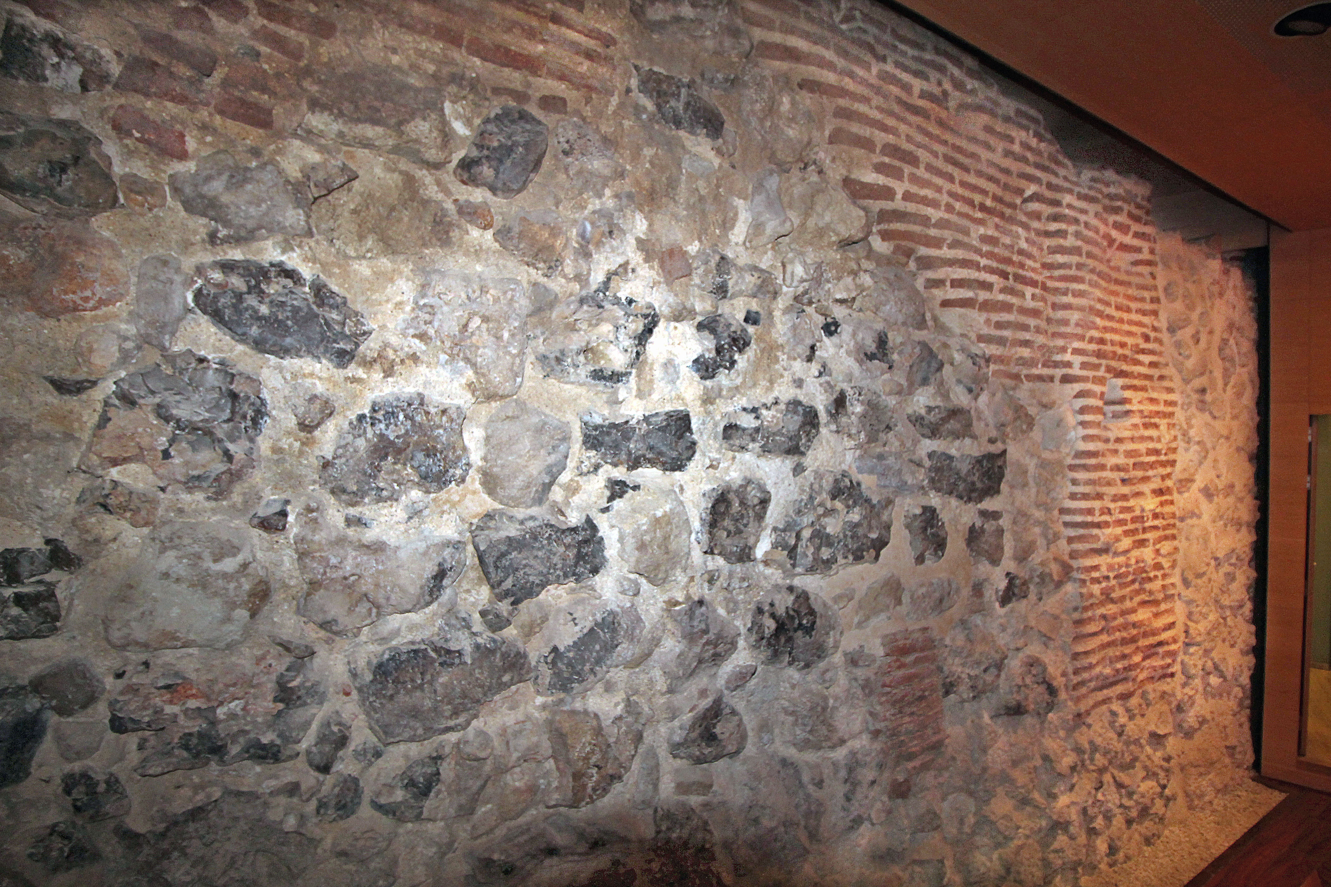 Ruins of the Christian wall of Madrid (Spain), preserved inside the former mansion of the marquis of Villafranca.